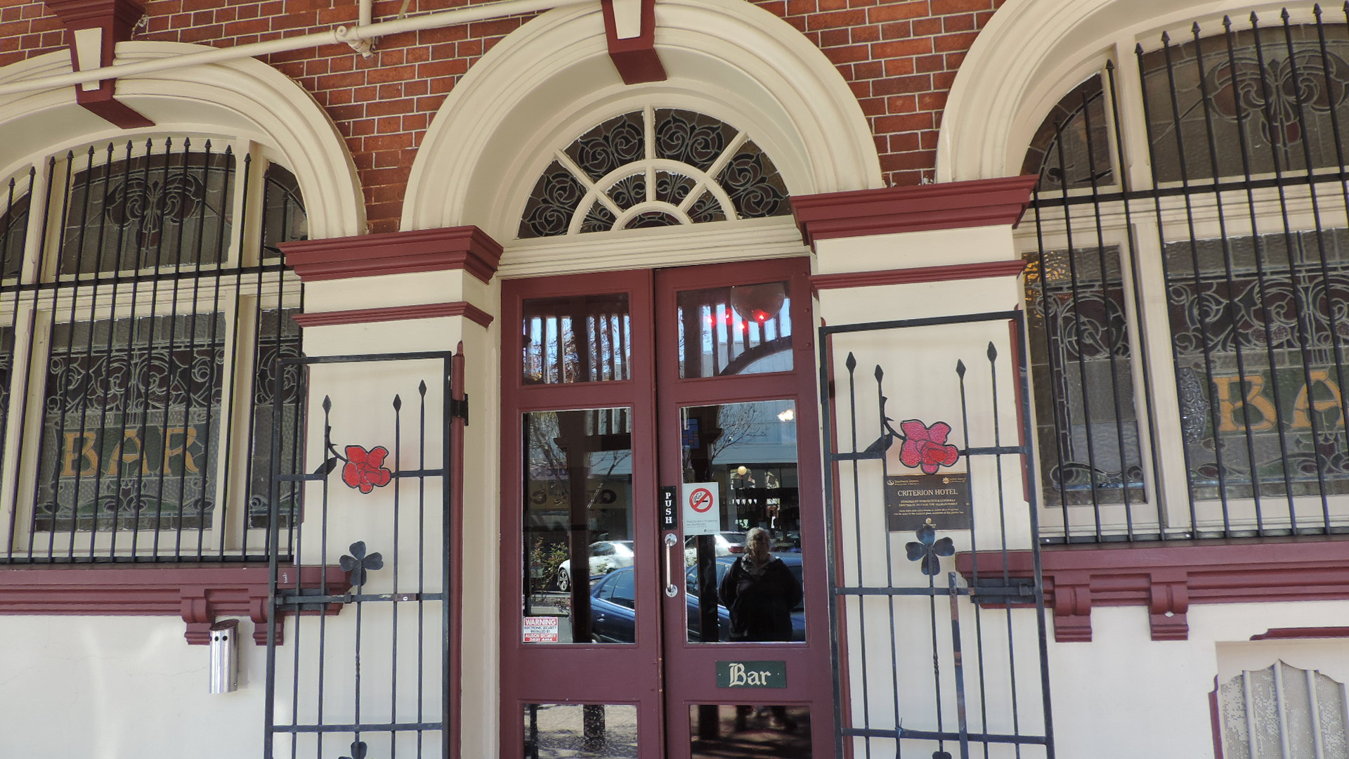 Ground floor exterior, Criterion Hotel, Palmerin Street, Warwick, 2015